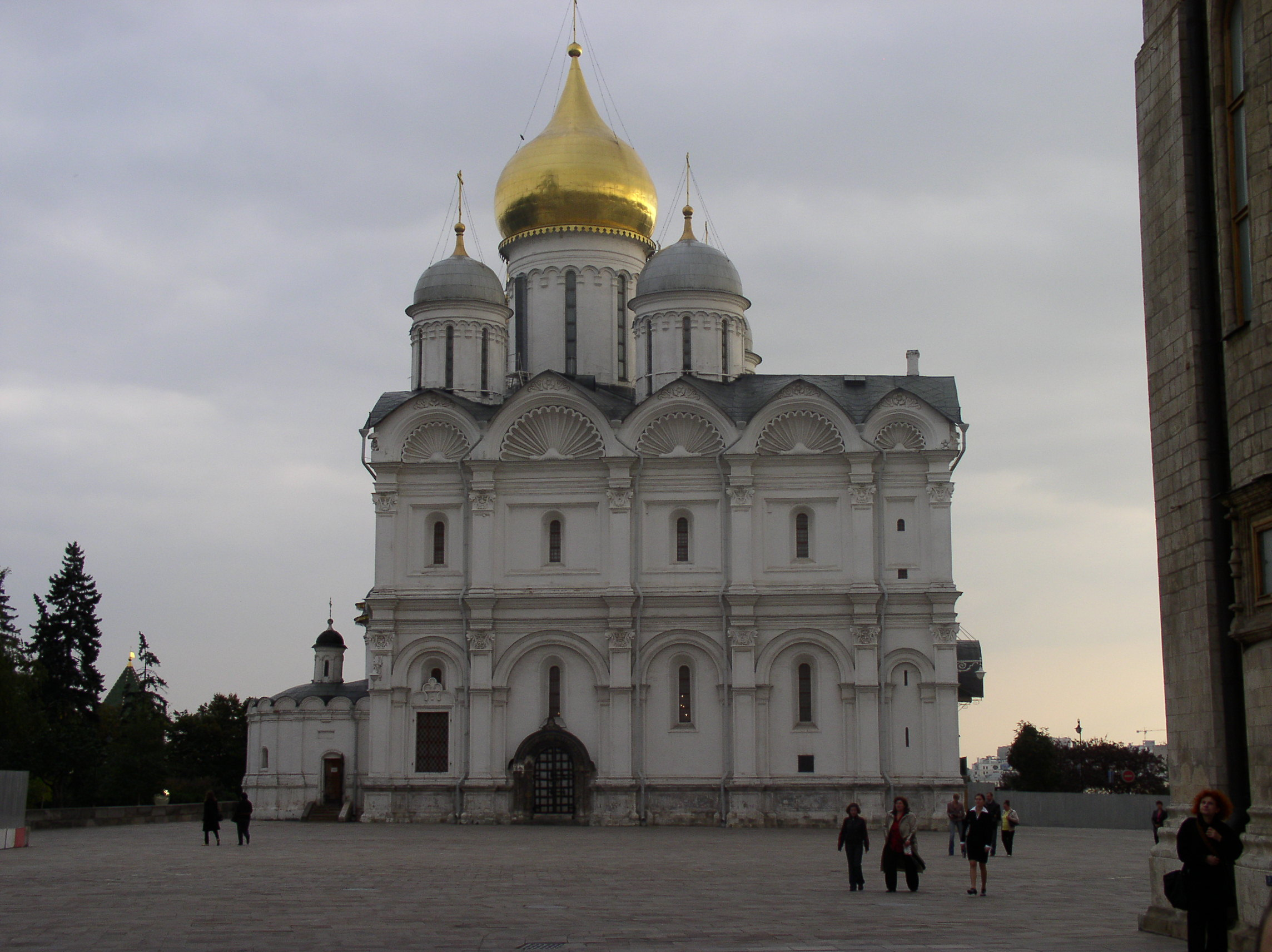 Archangel's Cathedral. Moscow, Russia.